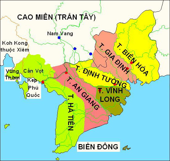 Provinces and cities in South - Vietnam during the period 1832-1841